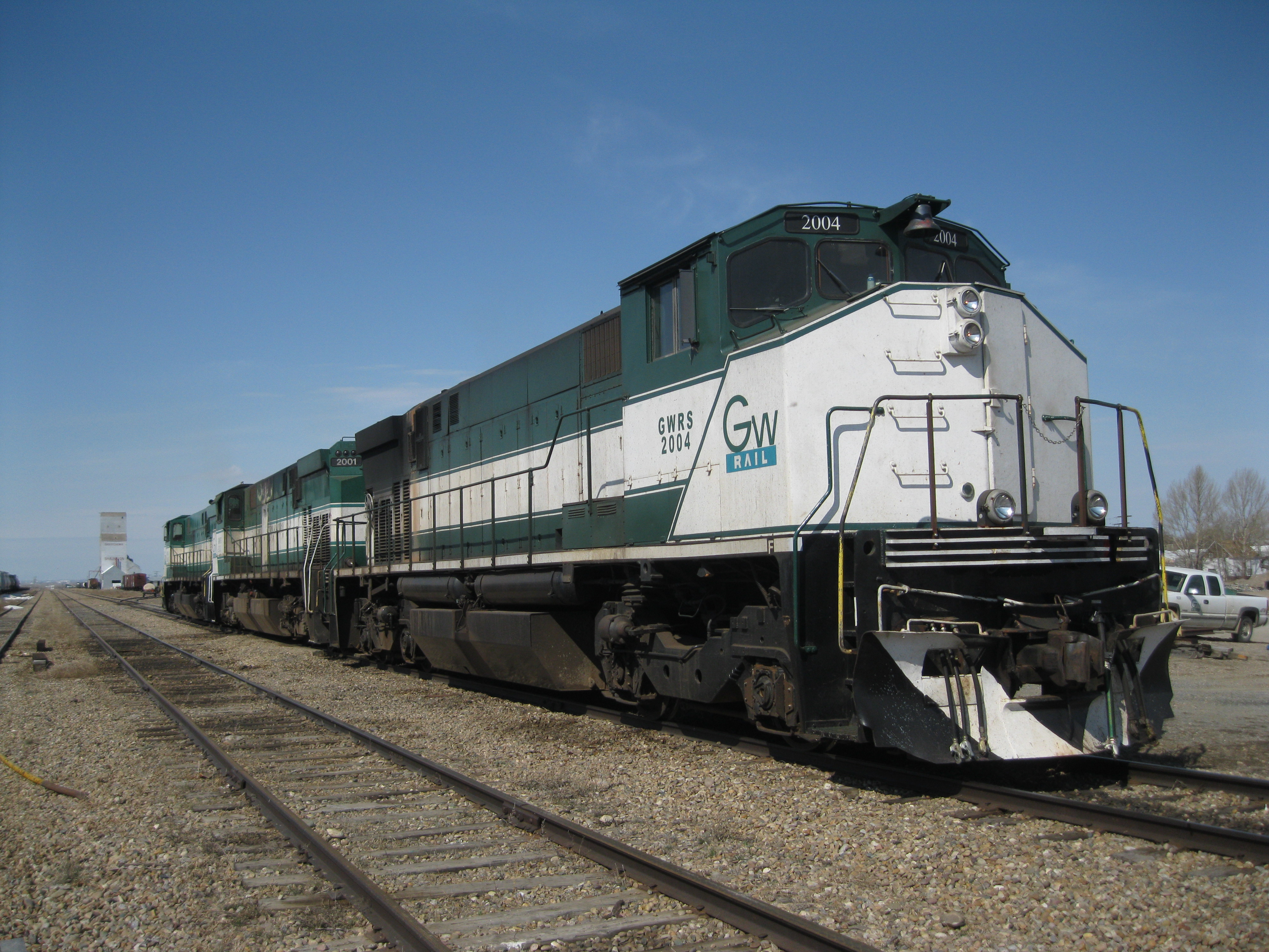 Engines outside of Shaunavon HQ. M420 2004 Great Western Railway.